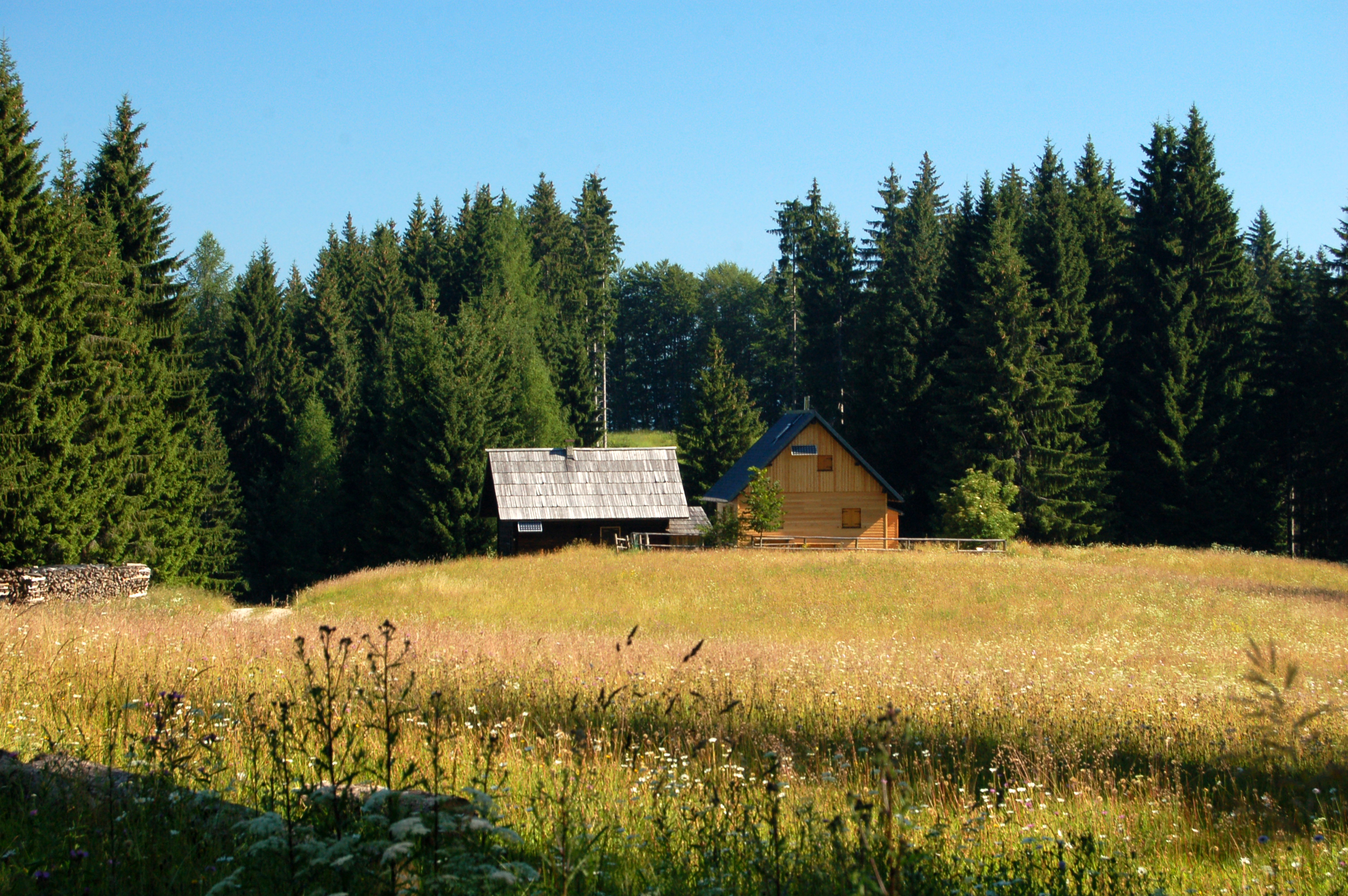 Mountain hut Ober der Arichwand (slovenian: Koca nad Arihovo pecjo), the only hut of Slovensko Planinsko Društvo Celovec (Slowenischer Alpenverein Klagenfurt), a section of the Alpine Association of Slovenia; located on the Rossalm at 1084m.